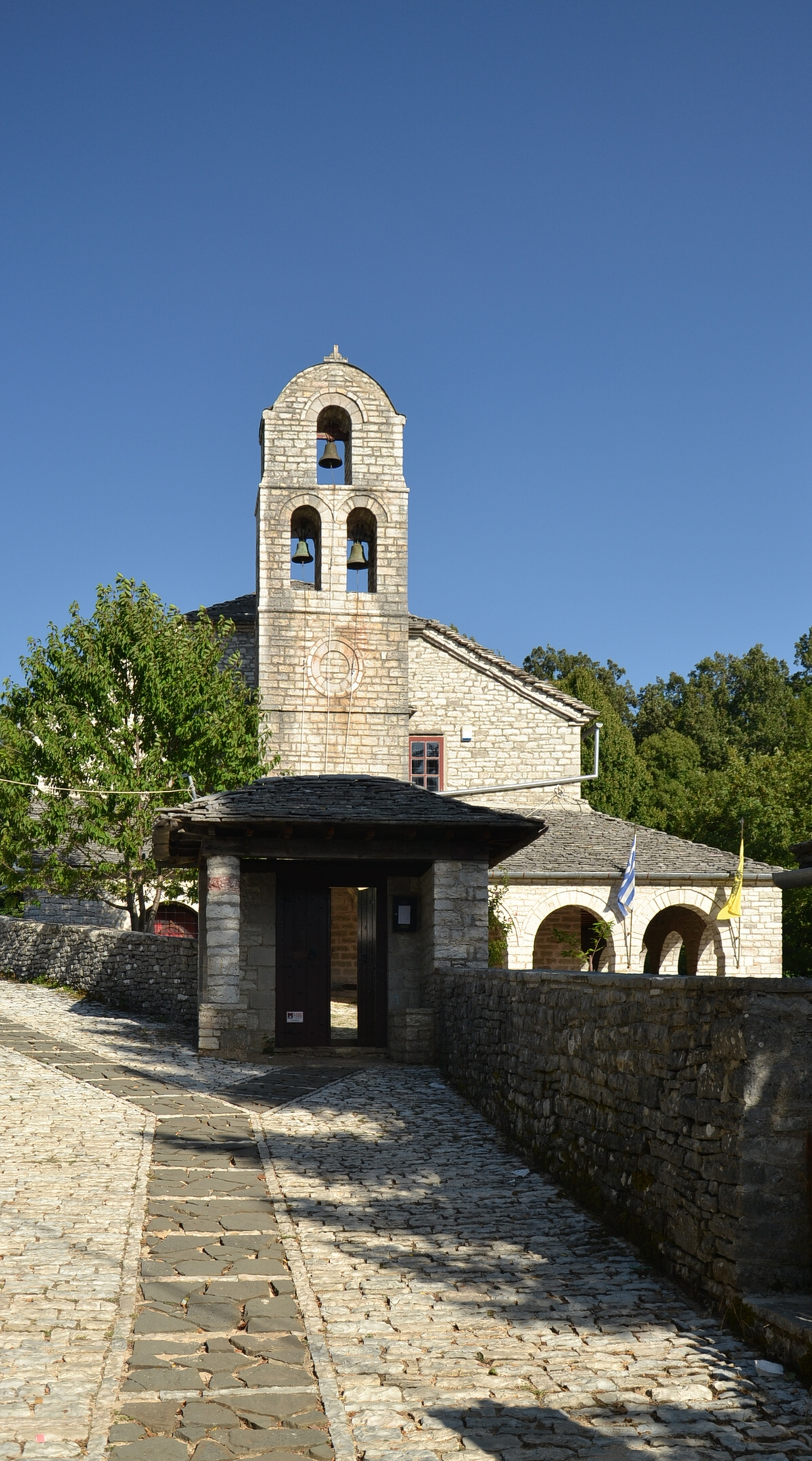 Monodendri (Μονοδένδρι) - Saint Athanasios church